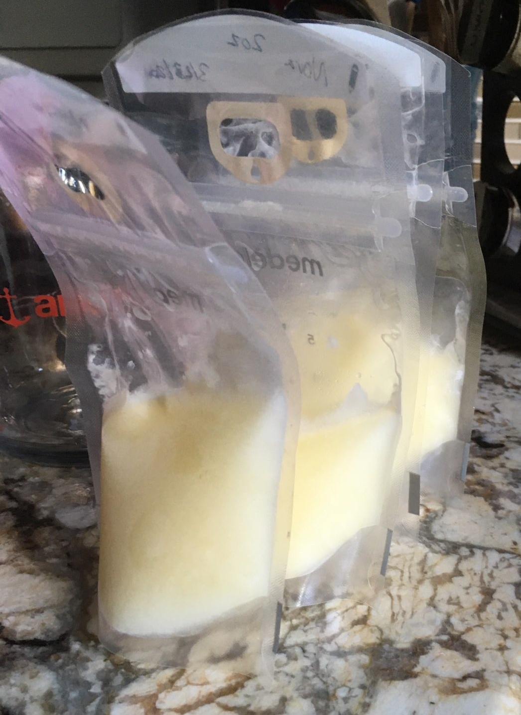 Three bags of frozen breast milk